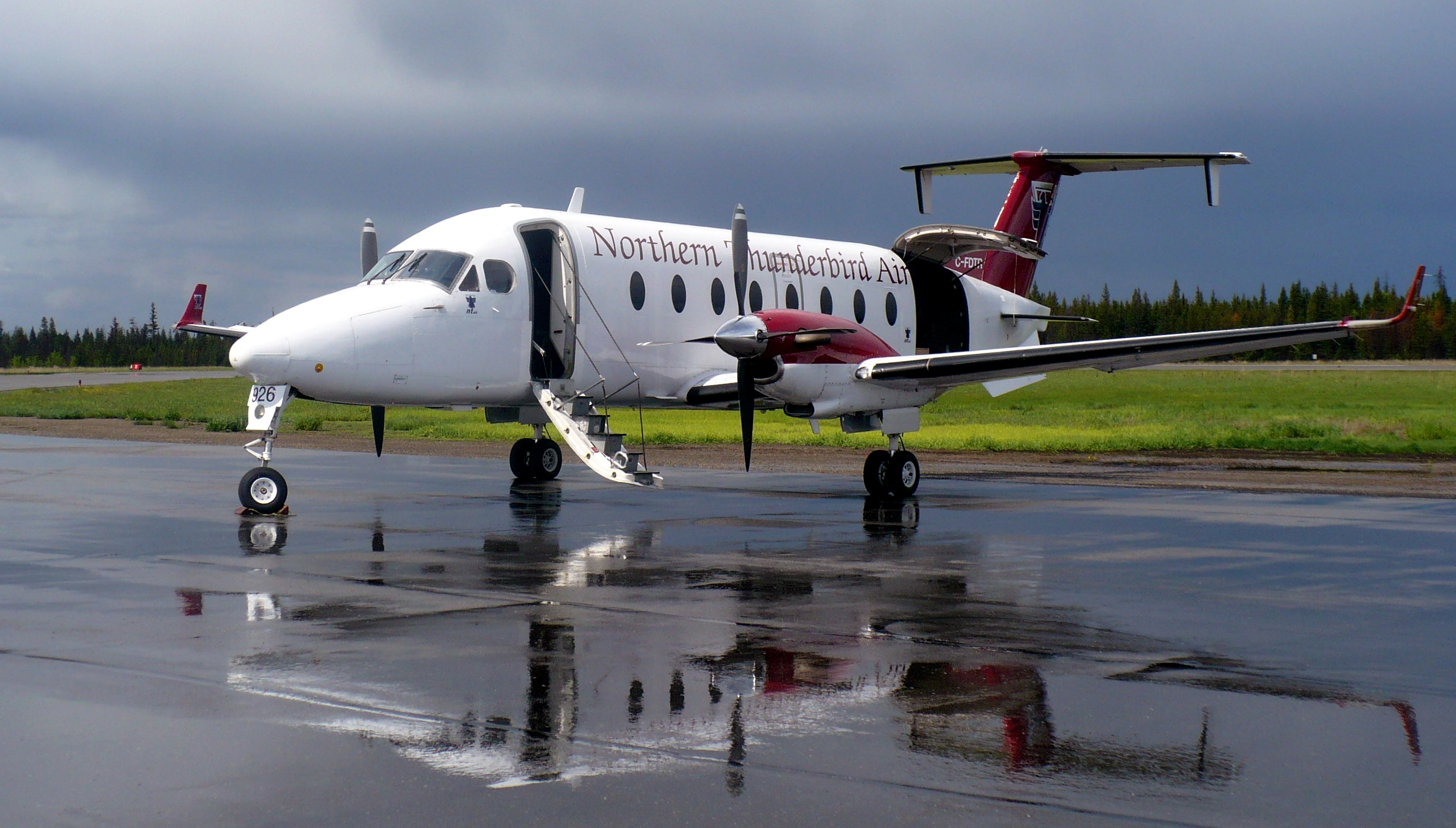 Northern Thunderbird Air Beechcraft 1900D (C-FDTR) on the ramp @ Williams Lake Airport, BC, Canada